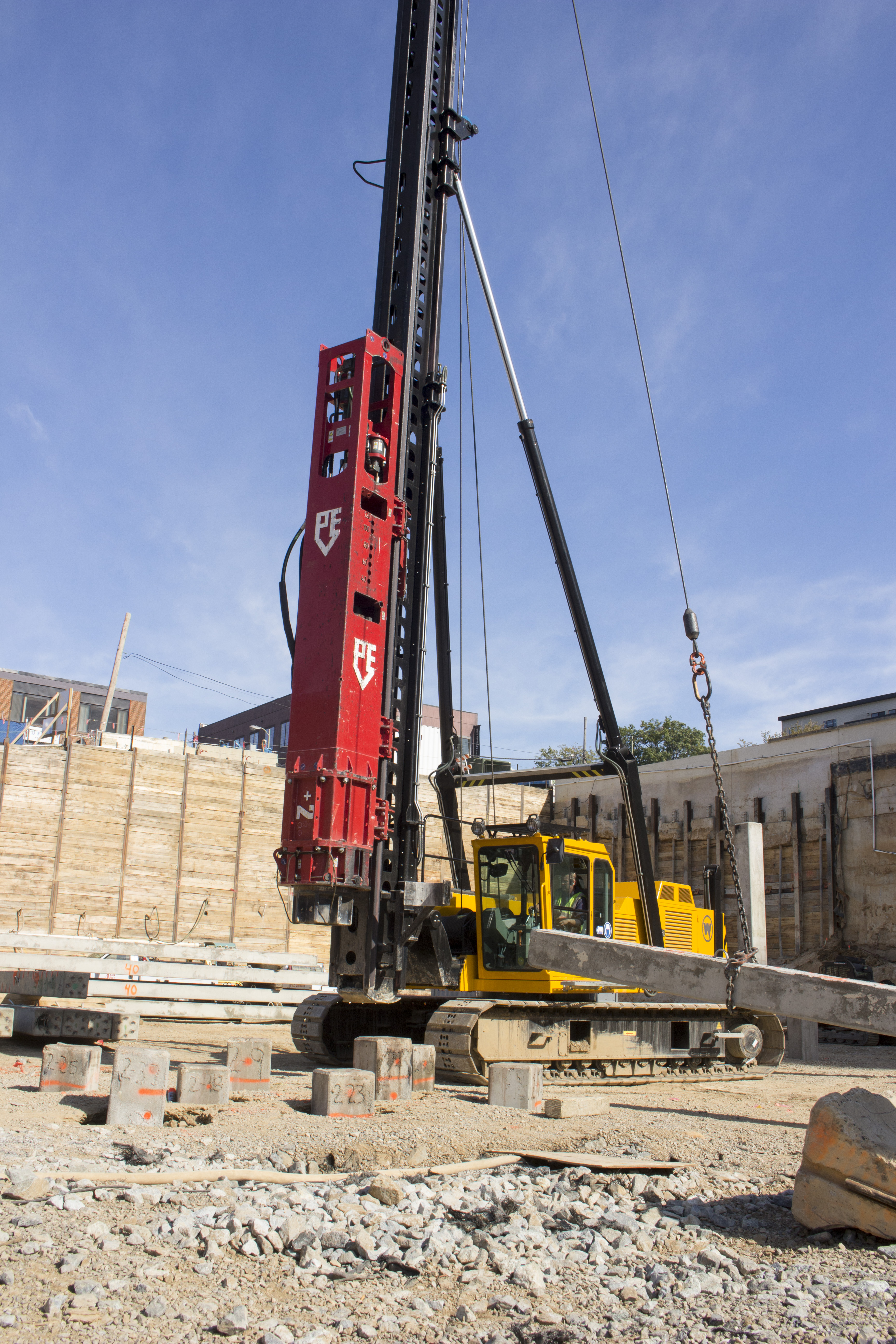 Woltman rig with 7 ton hammer driving piles in Washington DC